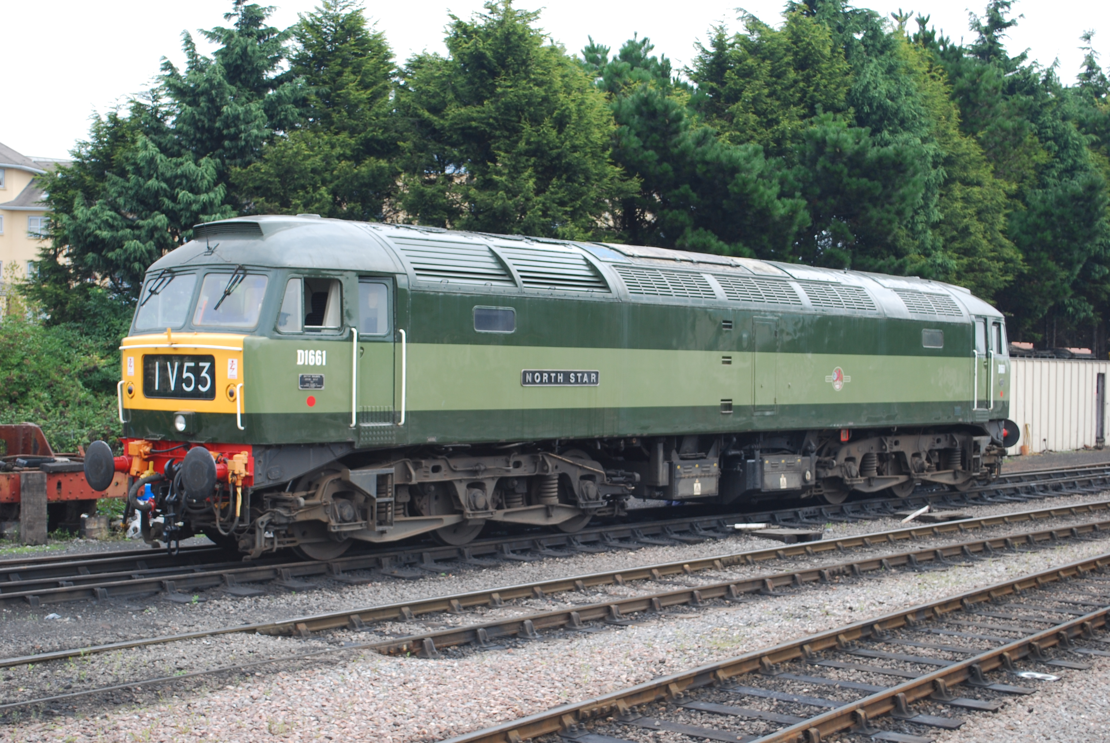 Preserved Brush Class 47 2,580 hp Co-Co No.D1661 North Star (later 47 077; 47 613; 47 840) in original BR two-tone green livery at Minehead on the West Somerset Railway 9/10.